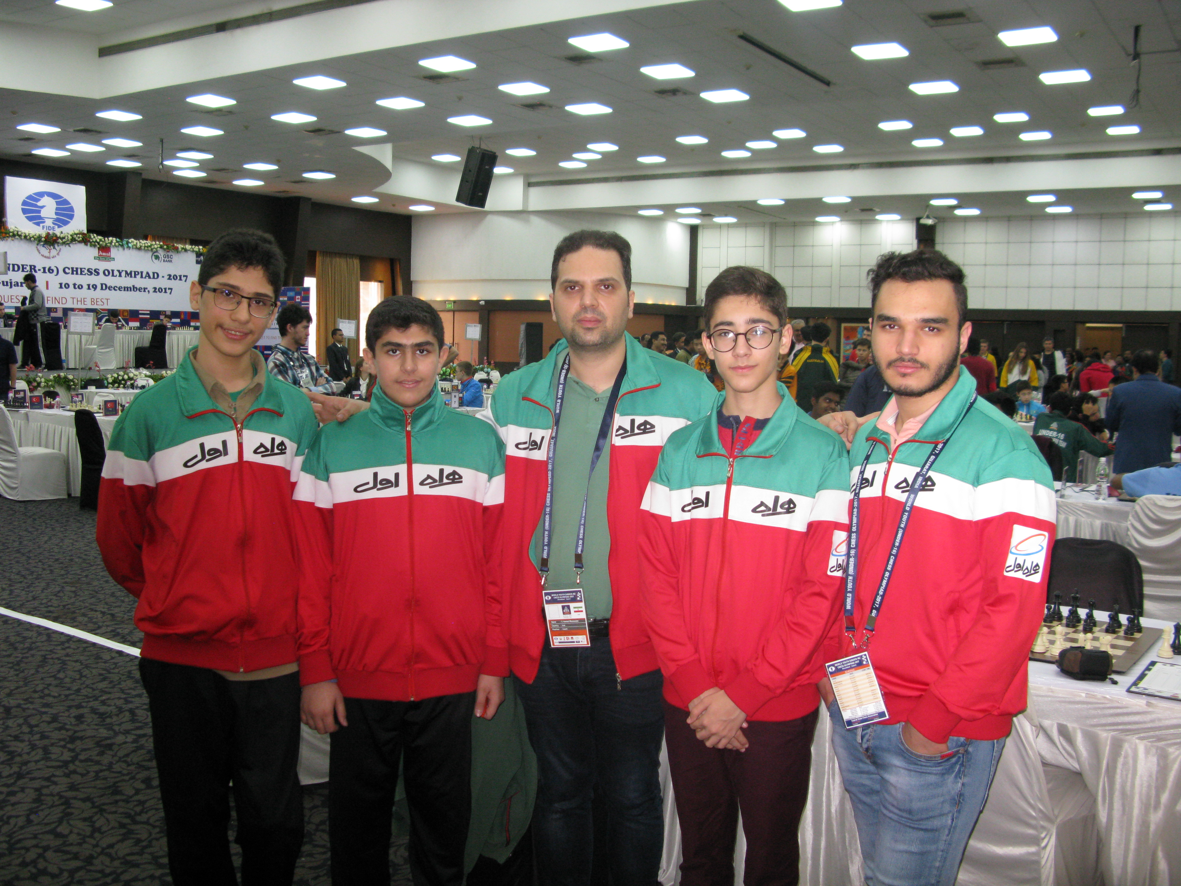 hamed mousavian india